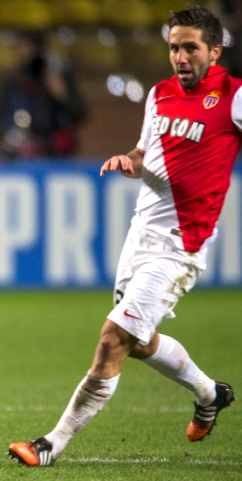 João Moutinho